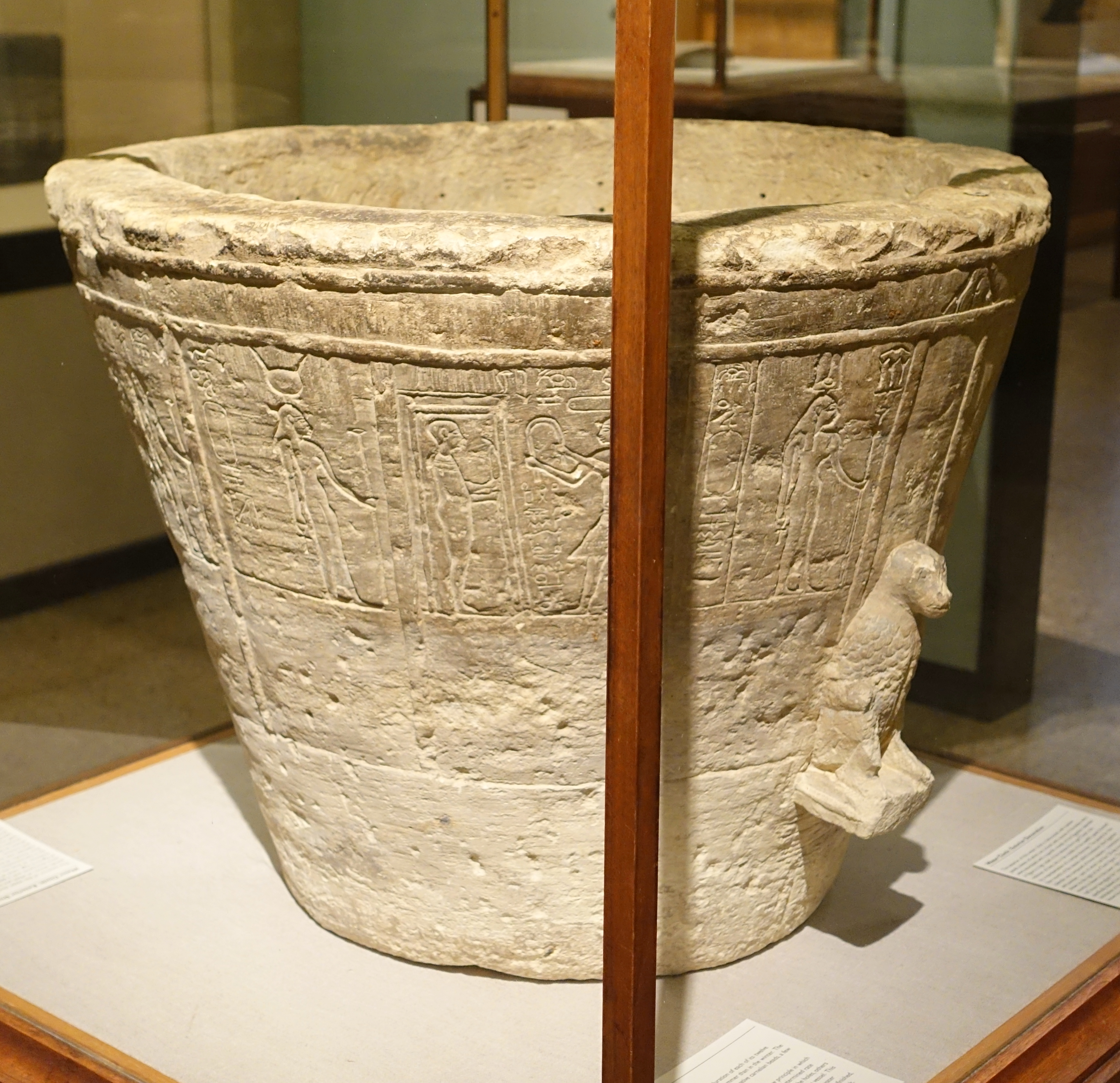 Exhibit in the Oriental Institute Museum, University of Chicago, Chicago, Illinois, USA. This work is old enough so that it is in the public domain.